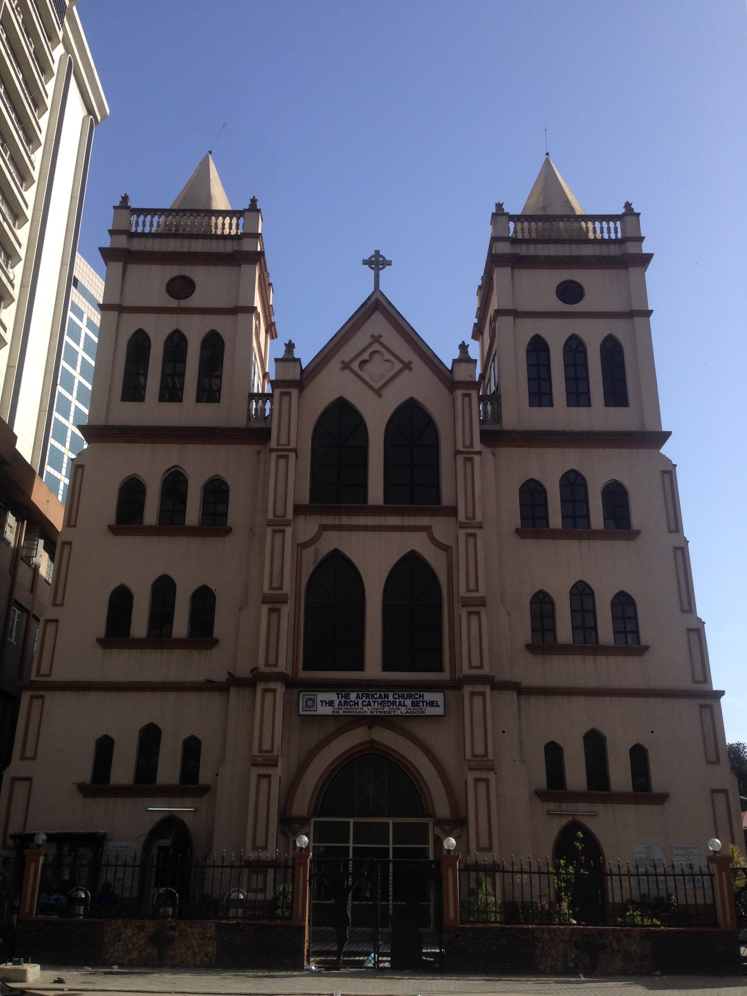 Facade of Bethel Cathedral